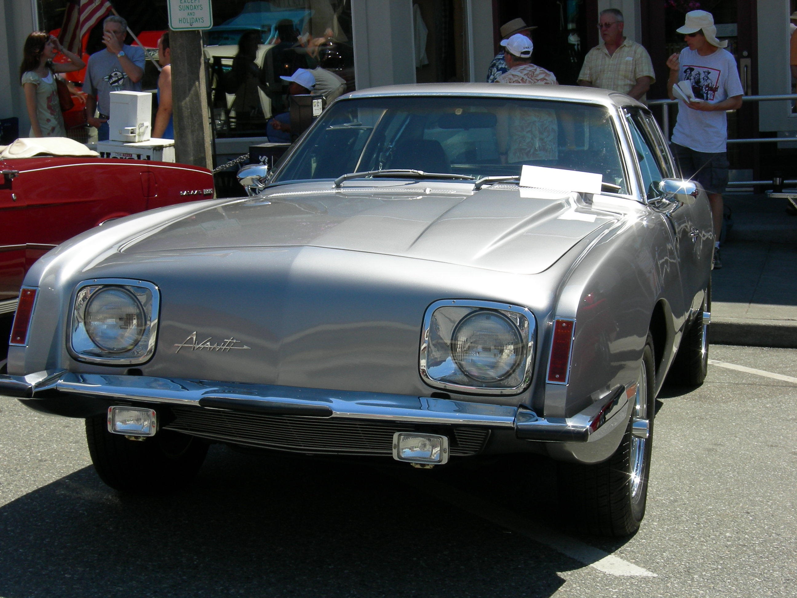 Studebaker Avanti, photographed at Kla-Ha-Ya days, Snohomish, Washington